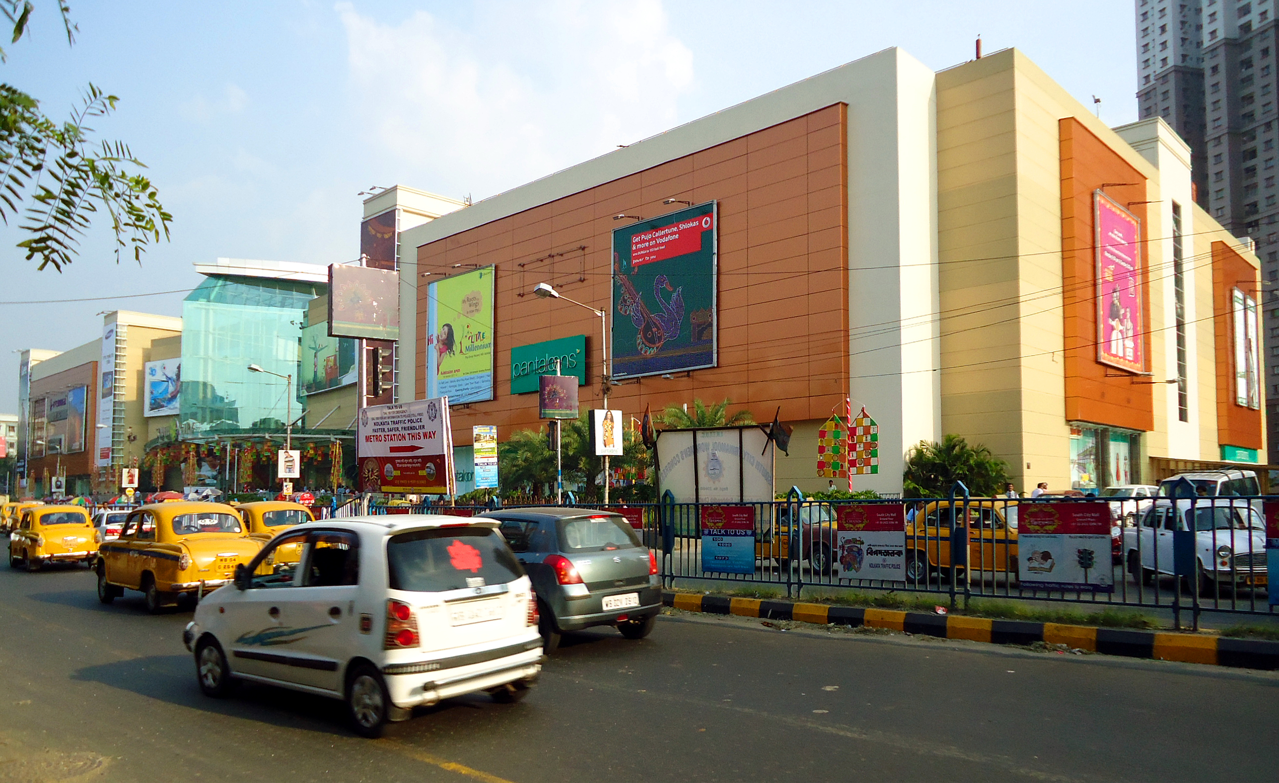 Photo of South City Mall, Kolkata, taken during Durga Puja 2011